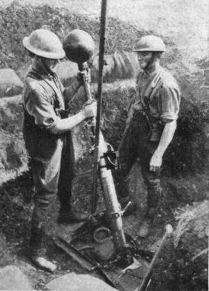 Photograph of British troops loading a Vickers 2 inch Medium Mortar ("Toffee Apple" mortar) with "Post, No.4, Mark I periscope" attached. The caption states this is on the Balkan front, which could be deliberate wartime disinformation. This in fact appears to be a training exercise as no fuse is visible on the bomb, and frontline trenches would be deeper. See also Image:TroopsOperating2inchMortarInTrenchWWI.jpg which appears to be of the same location.